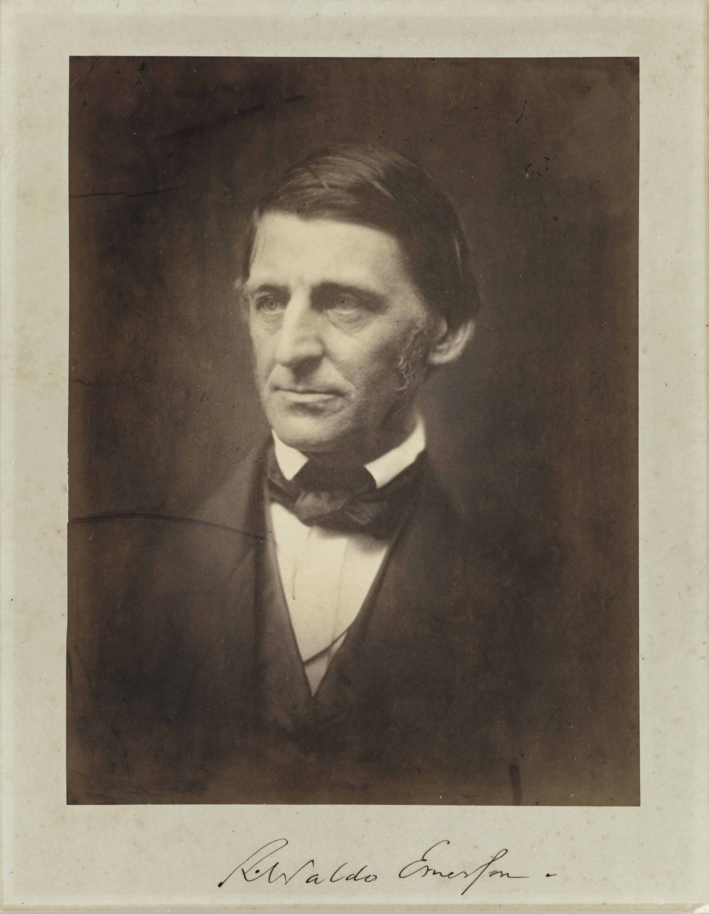 Autographed albumen photograph of Ralph Waldo Emerson